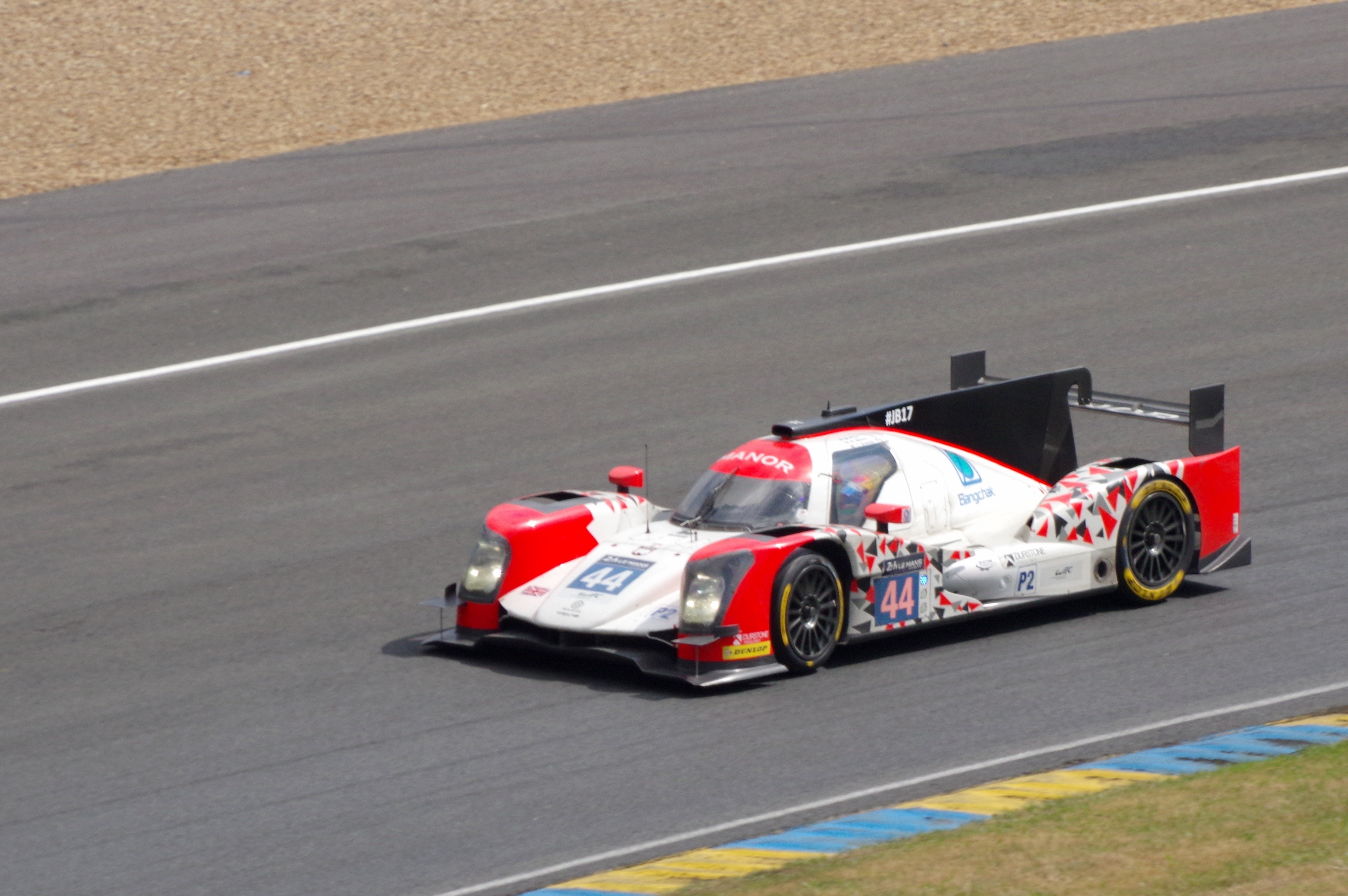 Manor Racing's Oreca 05 Nissan Driven by Tor Graves, Matthew Rao and Roberto Merhi